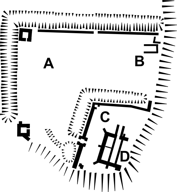 Plan of Piel Castle, after data in R. Newman,1986, Contrebis Vol. 12, p.67